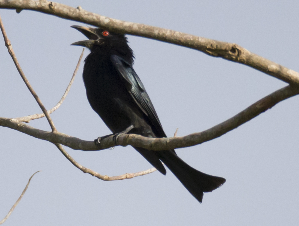 Singing his heart out